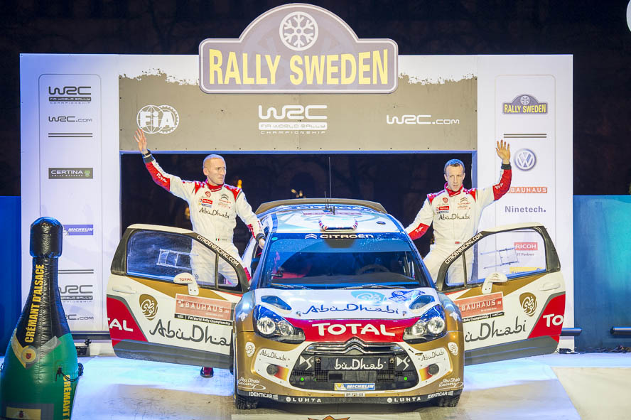 Rally Sweden 2014 Citroen DS3 WRC,Citroen Total Abu Dhabi WRT,Citroen Total Abu Dhabi World Rally Team,Kris Meeke,Motorsport,Paul Nagle,Podium,Rally,Rally Sweden,Rallye,Rallye Schweden,Siegerehrung